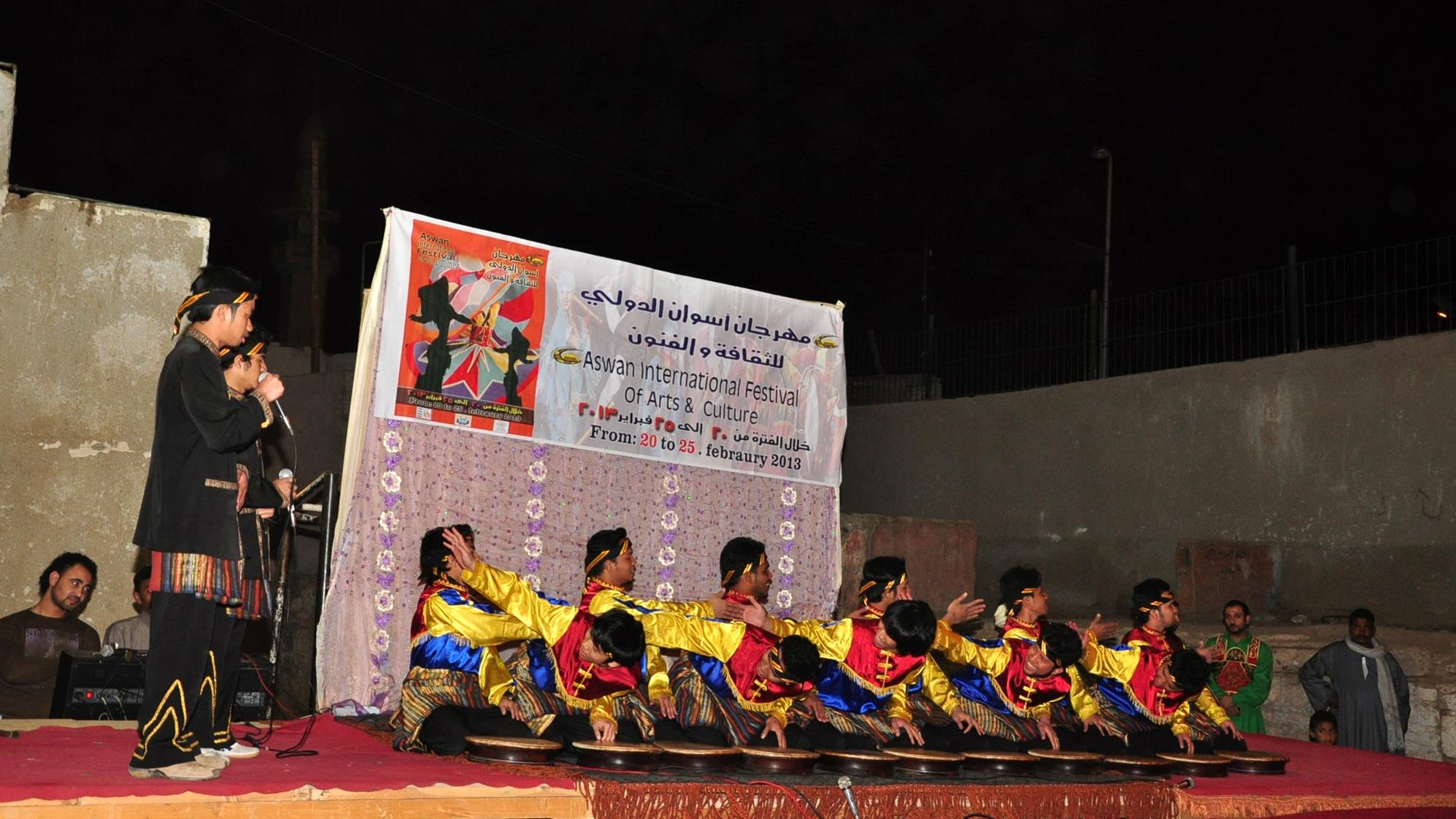 Rapa'i Geleng Dance in Egypt